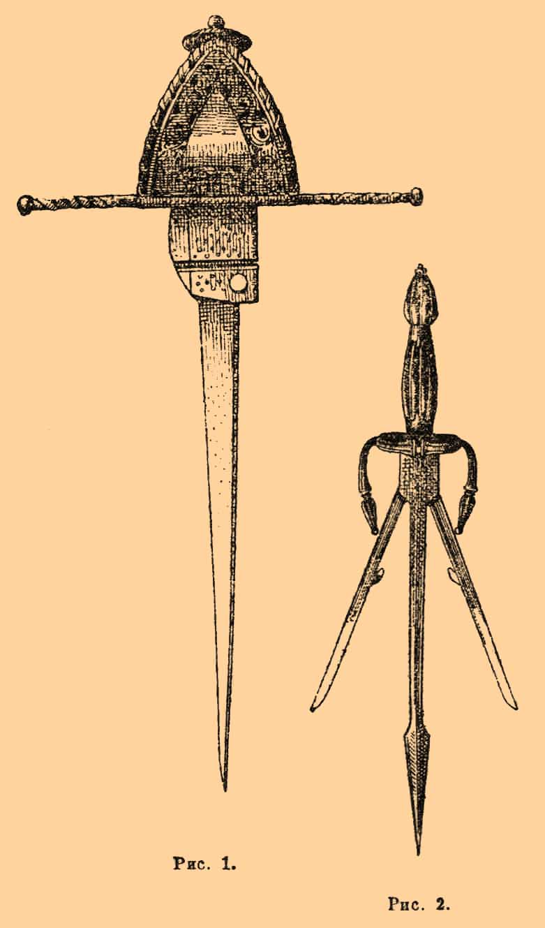 Illustration from Brockhaus and Efron Encyclopedic Dictionary (1890—1907)